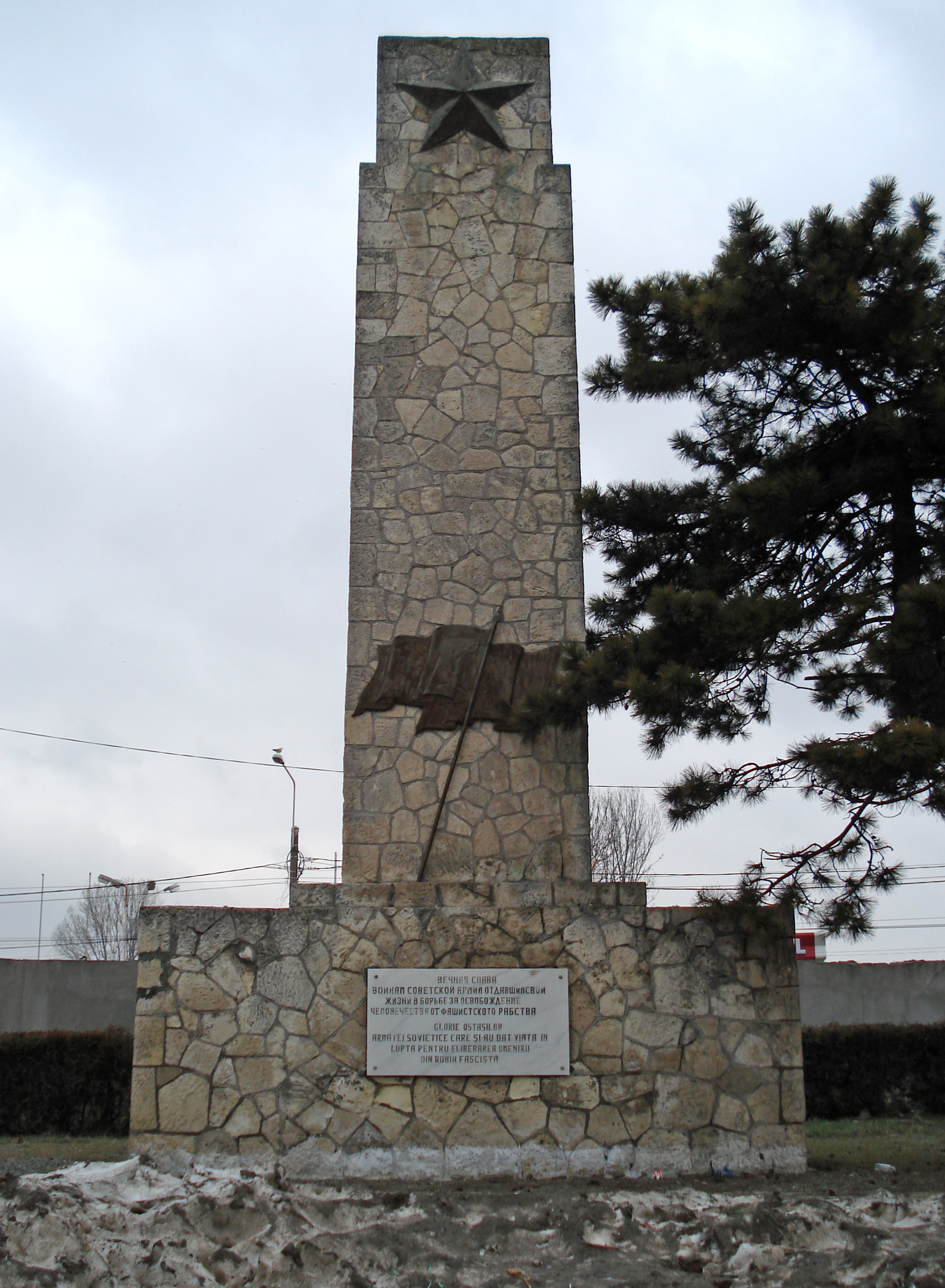 Soviet WW2 memorial in Central Cemetery, Constanţa, Romania. Plaque reads: [Eternal] Glory to the soldiers of the Soviet Army who have given their lives in the fight for the liberation of the humankind from the fascist opression in Russian and Romanian. Words in brackets appear only in the Russian version.